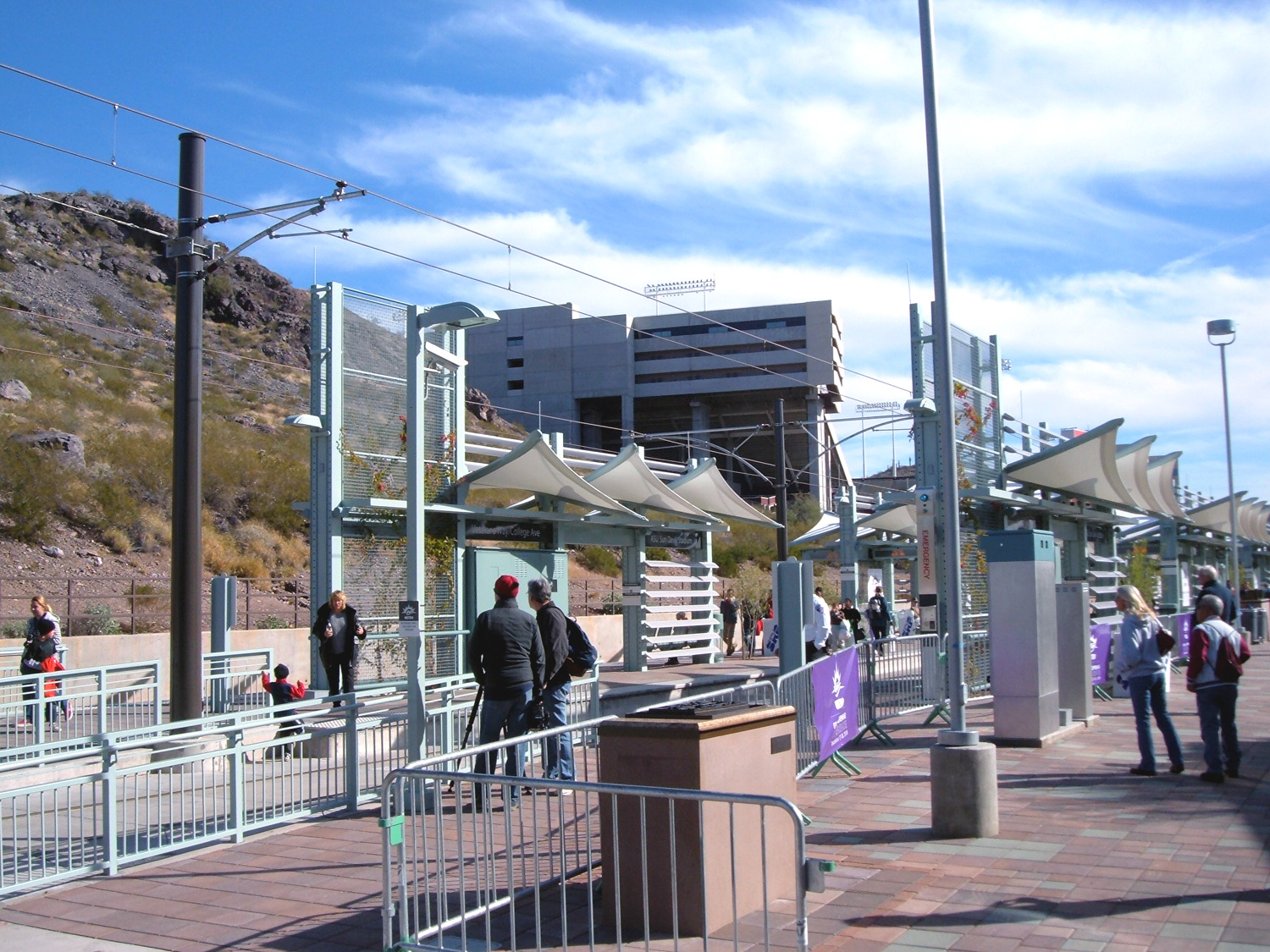 Photograph of the Tempe Transportation Center (or Veterans Way at College Avenue, or ASU Sun Devil Stadium) Station of METRO Light Rail that serves the Phoenix area, Arizona, USA. Visible in the background of this picture are Sun Devil Stadium adjacent to Tempe Butte. This photograph was taken during the light rail's grand opening celebration on December 27, 2008.